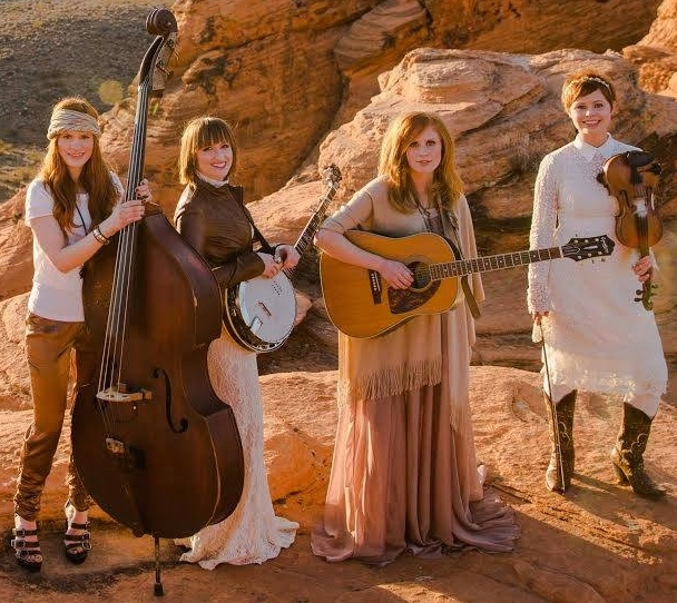 The four members of the Redhead Express pose in Utah with their instruments the day they filmed a music video.